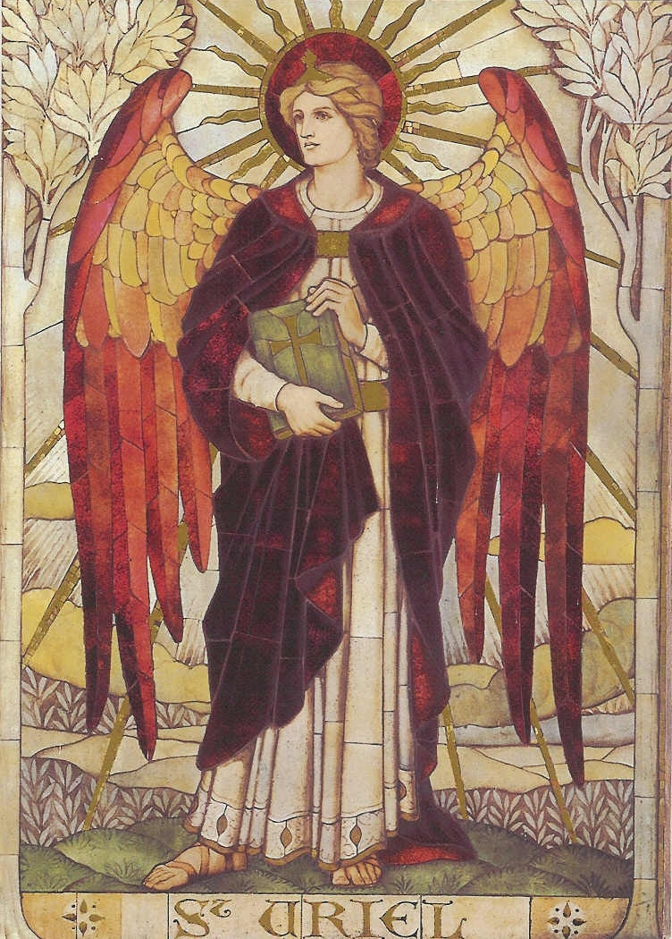 Mosaic of the archangel Uriel in St John’s Church, Boreham Road, Warminster, Wiltshire, England.